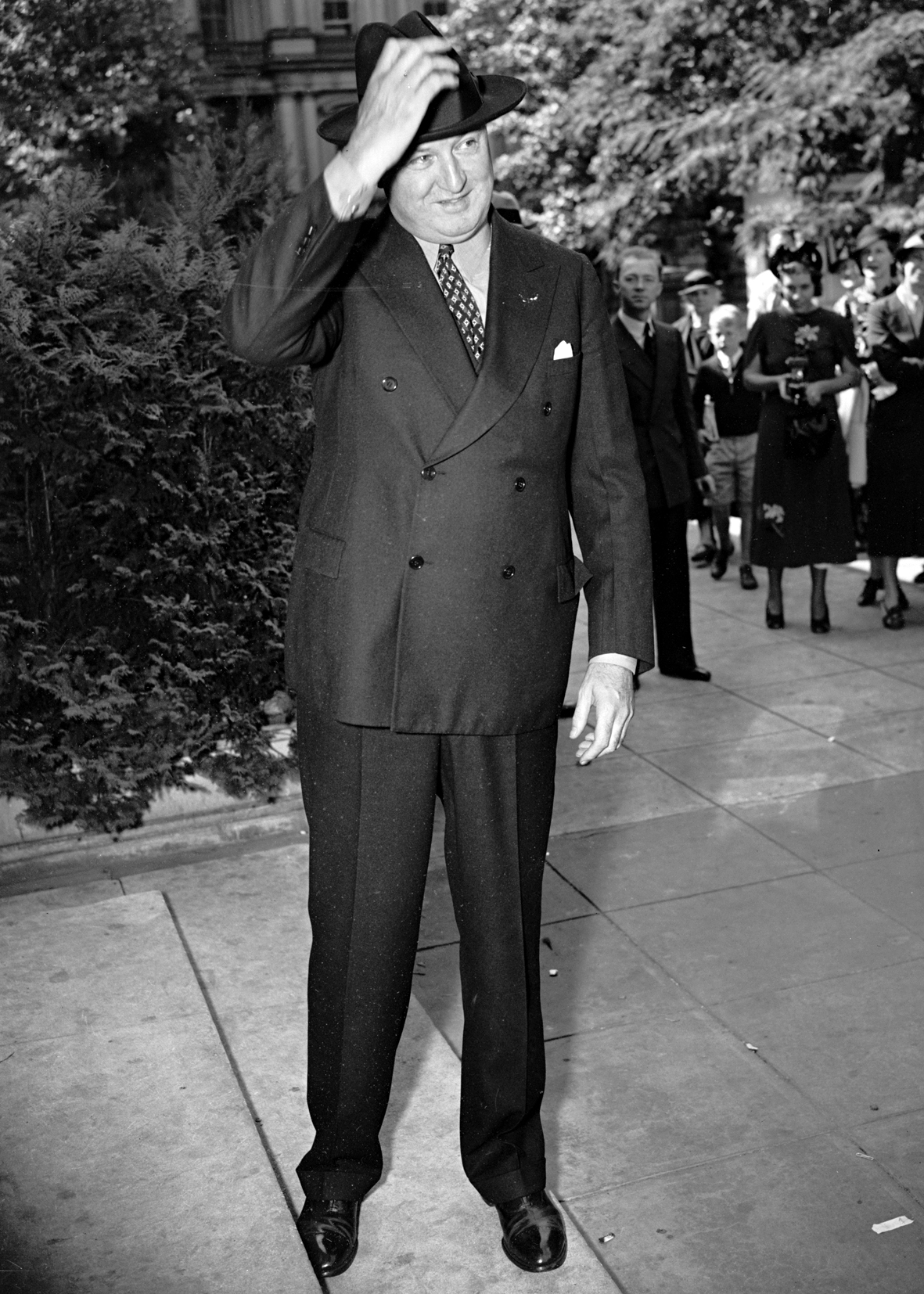 James Farley, United States Postmaster General and Chairman of the DNC